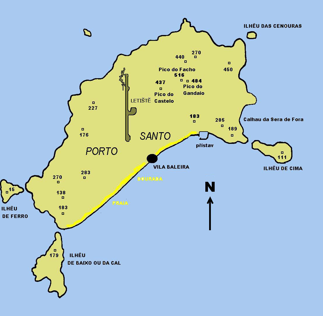 Map of Porto Santo island and its islets — in the northeastern Madeira Islands archipelago.